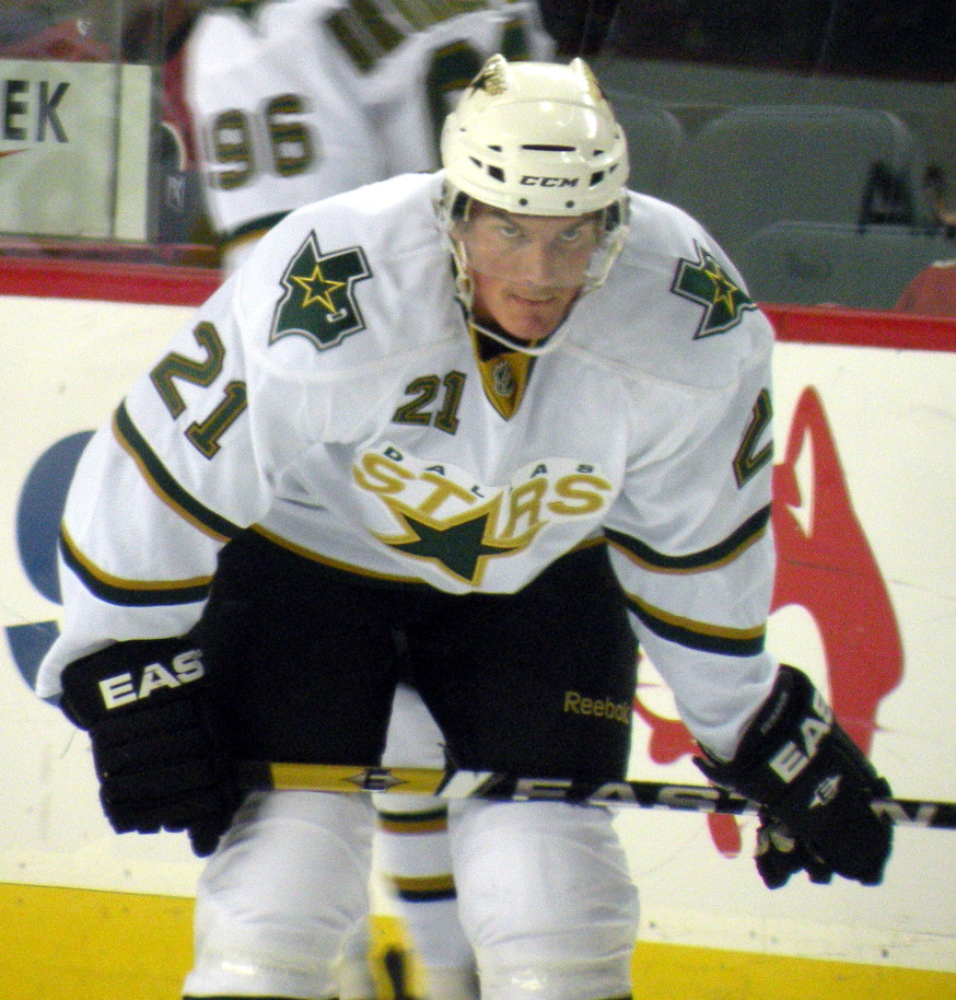 Dallas Stars forward Loui Eriksson during warm-up prior to a National Hockey League game against the Calgary Flames, in Calgary.